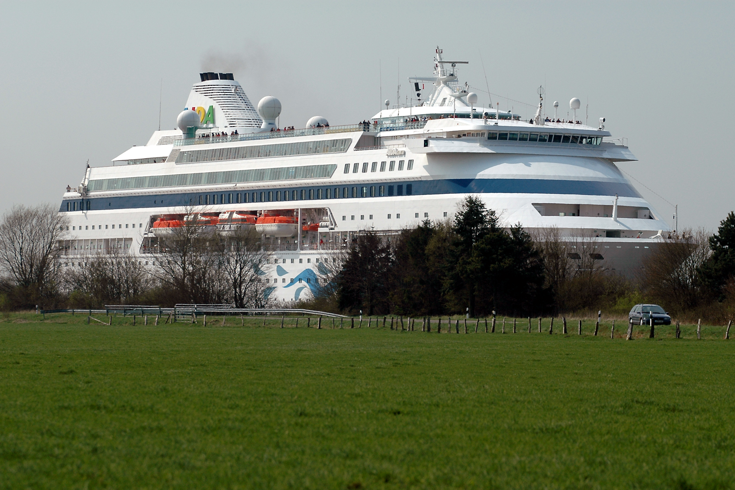 Cruise ship AIDAcara on the Kiel Canal. IMO Number: 9112789 MMSI Number: 247117300 Callsign: IBNR Length: 193 m Beam: 32 m